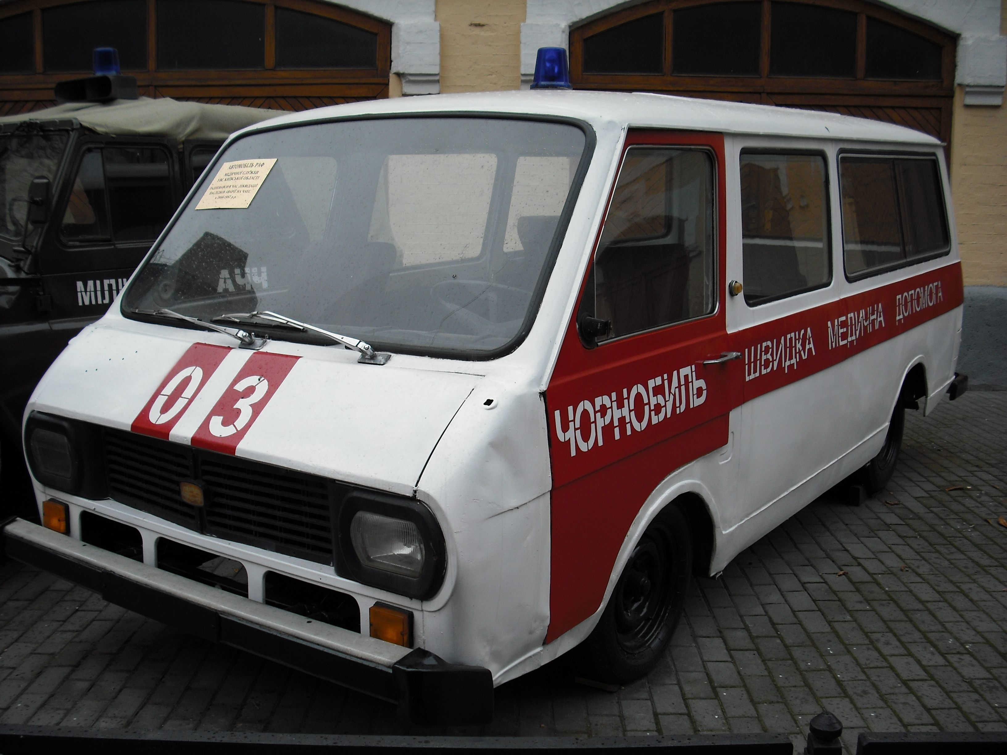 Kiev - Ukrainian National Chernobyl Museum - Red and white RAF-22031 ambulance, number 3 Note: this is probably not original RAF-22031 ambulance (lack of external roof lights etc.) Pibwl (talk) 23:09, 24 March 2013 (UTC)